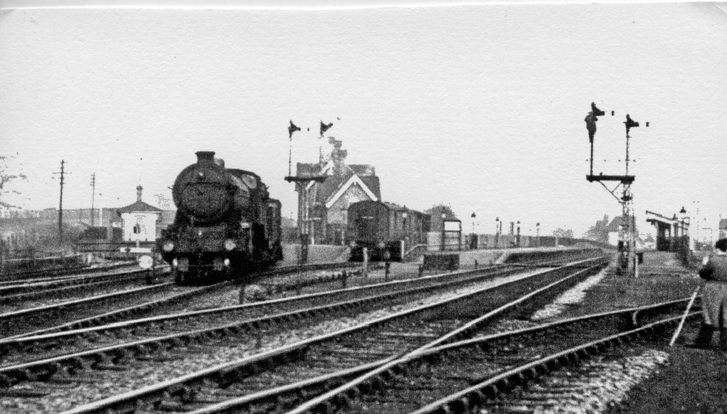 Egginton Junction, 1949View eastwards, towards Derby Friargate (ex-GNR) to left, Derby Midland via Stenson Junction (NSR) to right; cf. SK2529 : Egginton Junction station, 1949. On a GN line freight is ex-GN Gresley class K2/2 2-6-0 No. 61771, LNER 4681 (built 6/21, withdrawn 12/60).